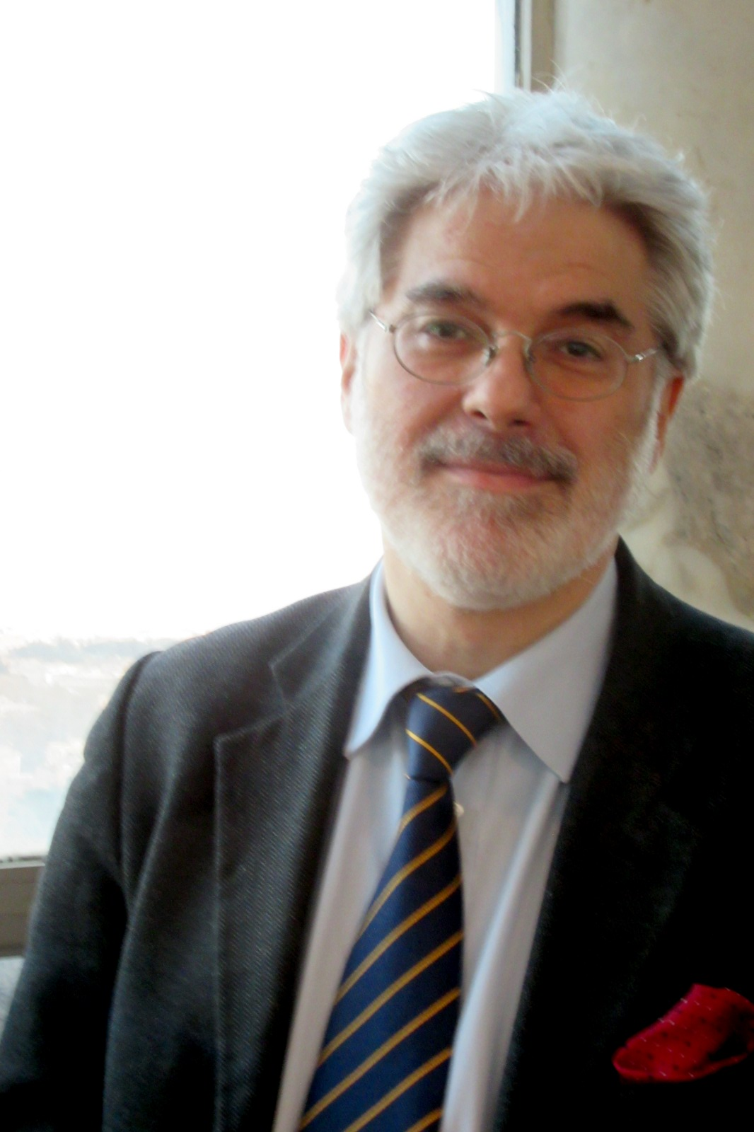 Flavio Colusso at Villa Lante al Gianicolo